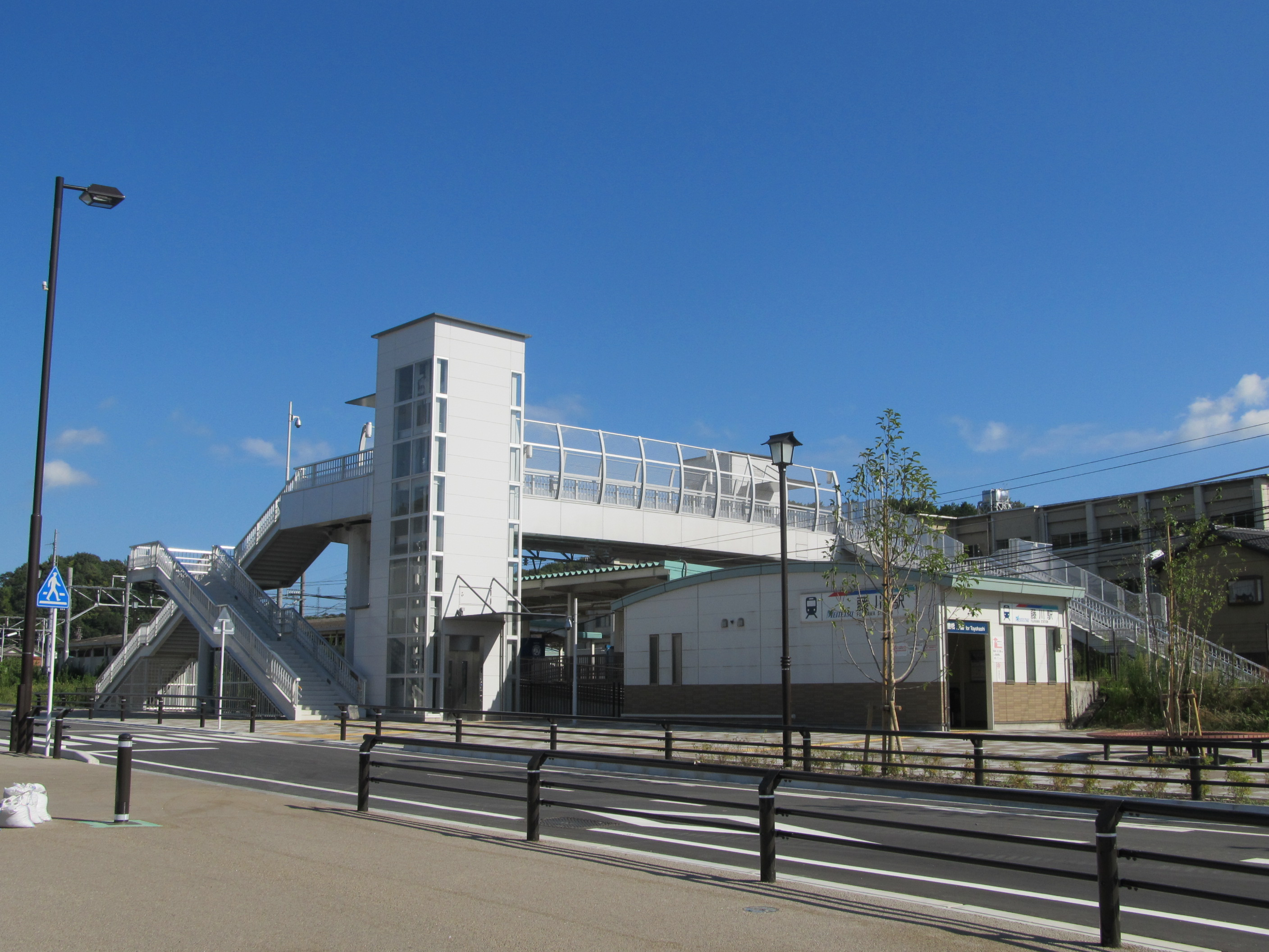 Nagoya Railroad Nagoya Main Line Fujikawa Station Building (for Toyohashi)